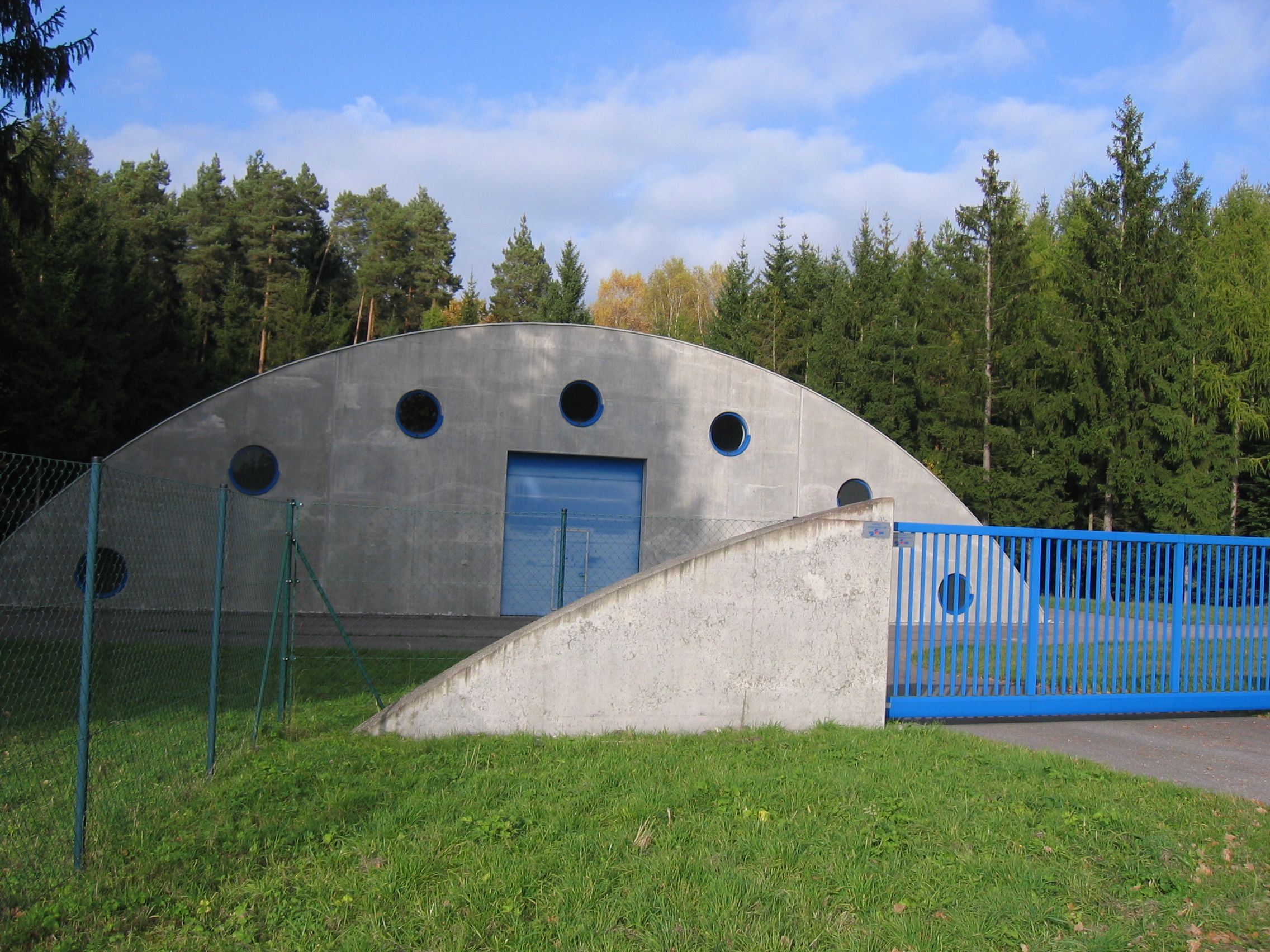 Water Station Galgenau